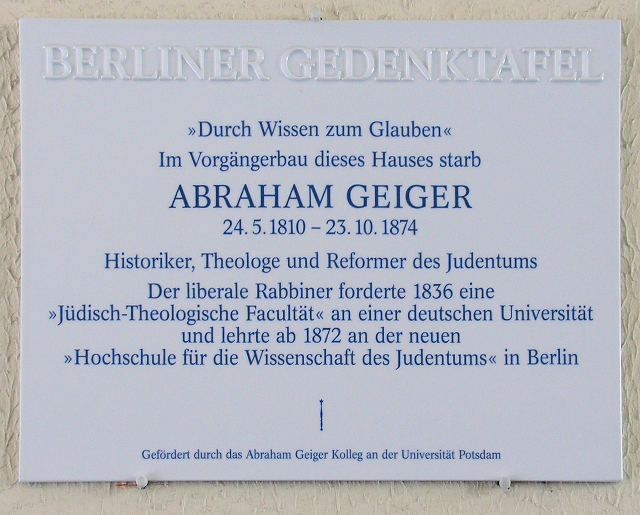 Berlin memorial plaque, Abraham Geiger, Rosenthaler Straße 40, Berlin-Mitte, Germany